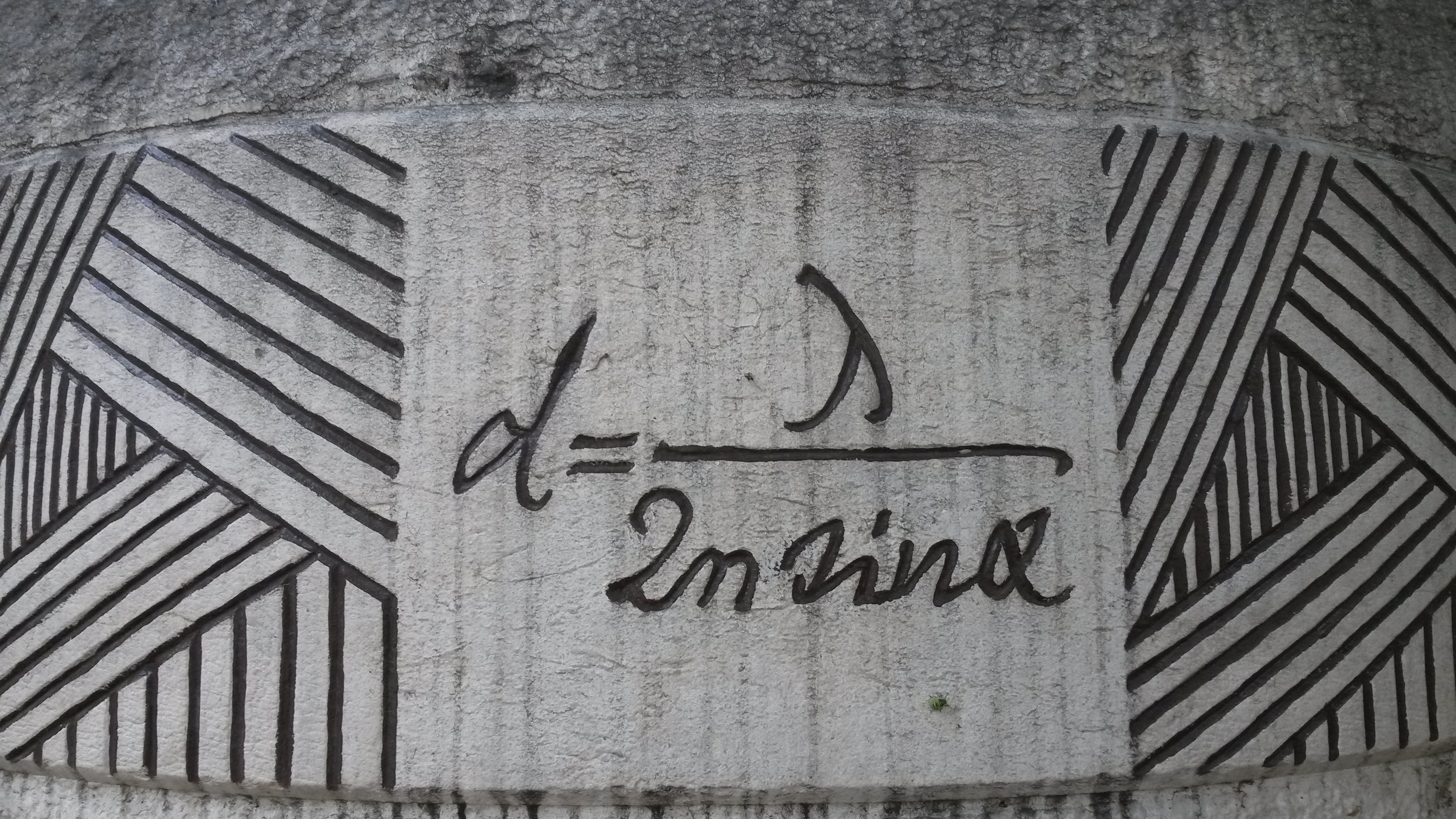 Ernst-Abbe-Denkmal Jena Fürstengraben